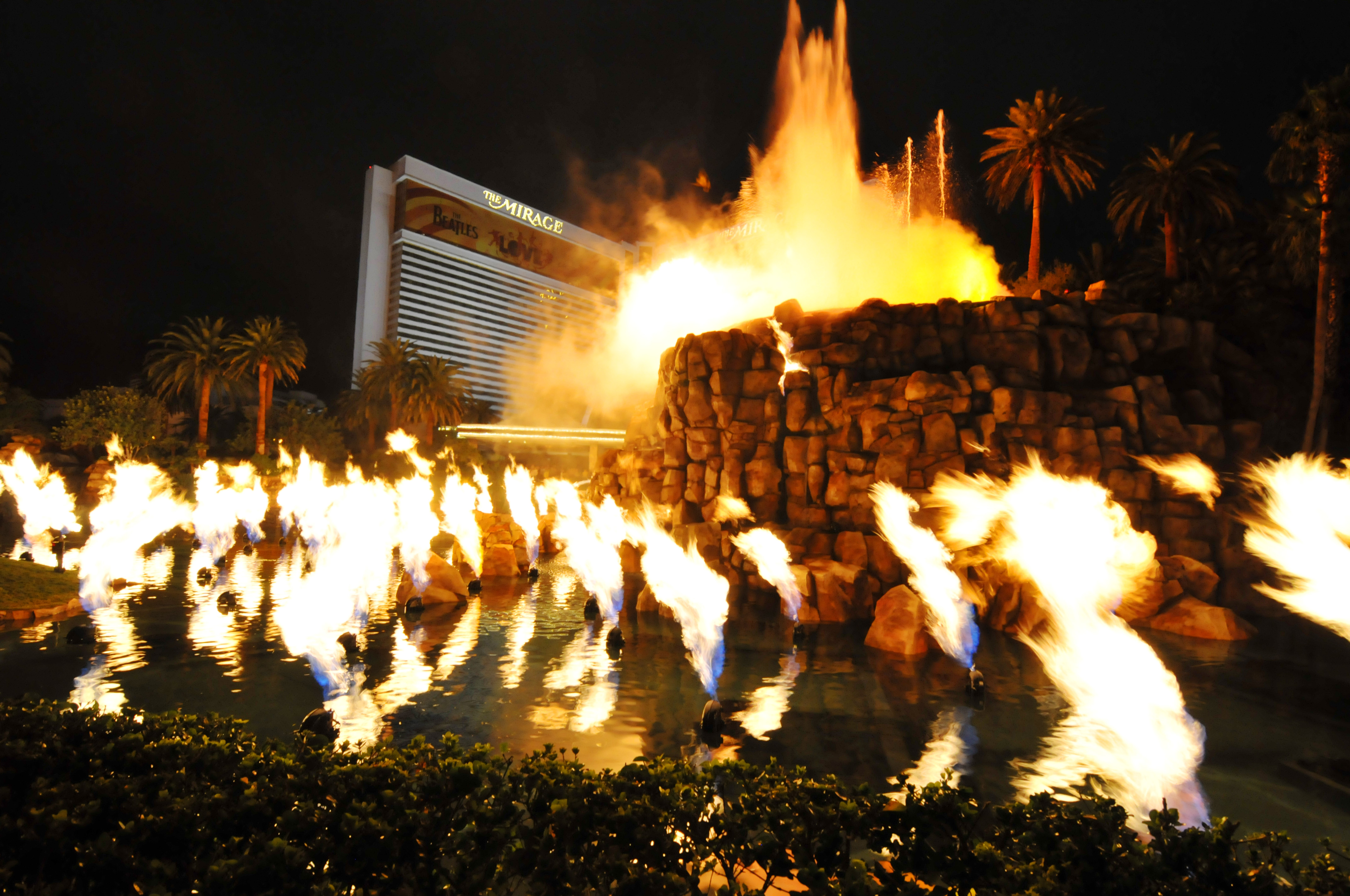 remodeled and better show. it used to be meager in the past. the flames in the water are new I think